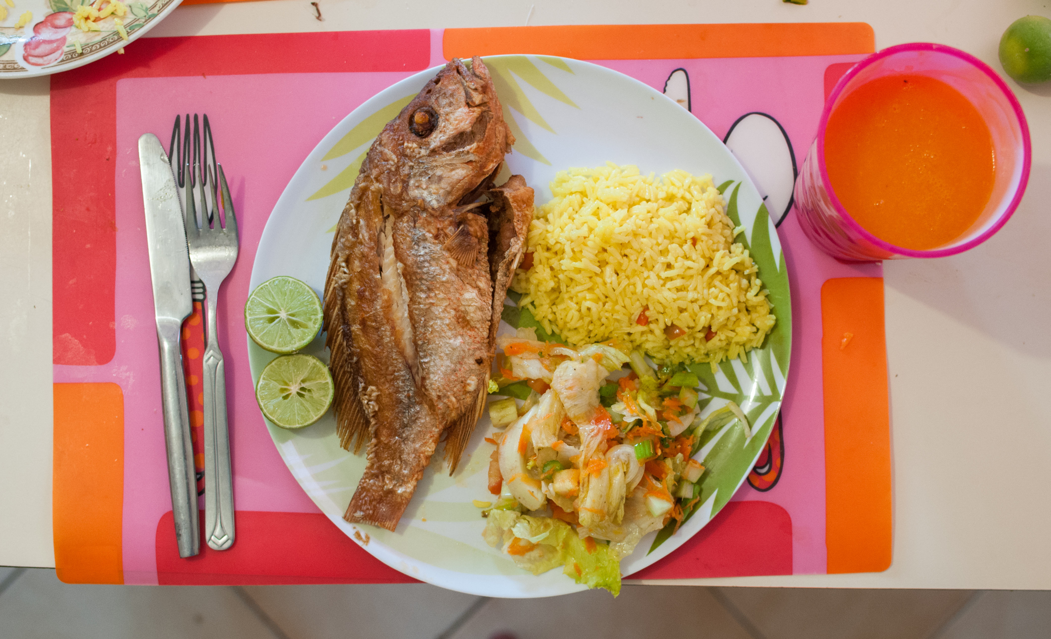 White Grunt with rice and salad, dish of the cuisine of Margarita Island